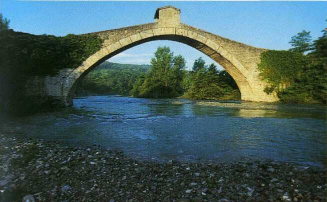 The Bridge of Olina, over the river Panaro. Photo from Italian Wikipedia. Immagine:Olina.jpg